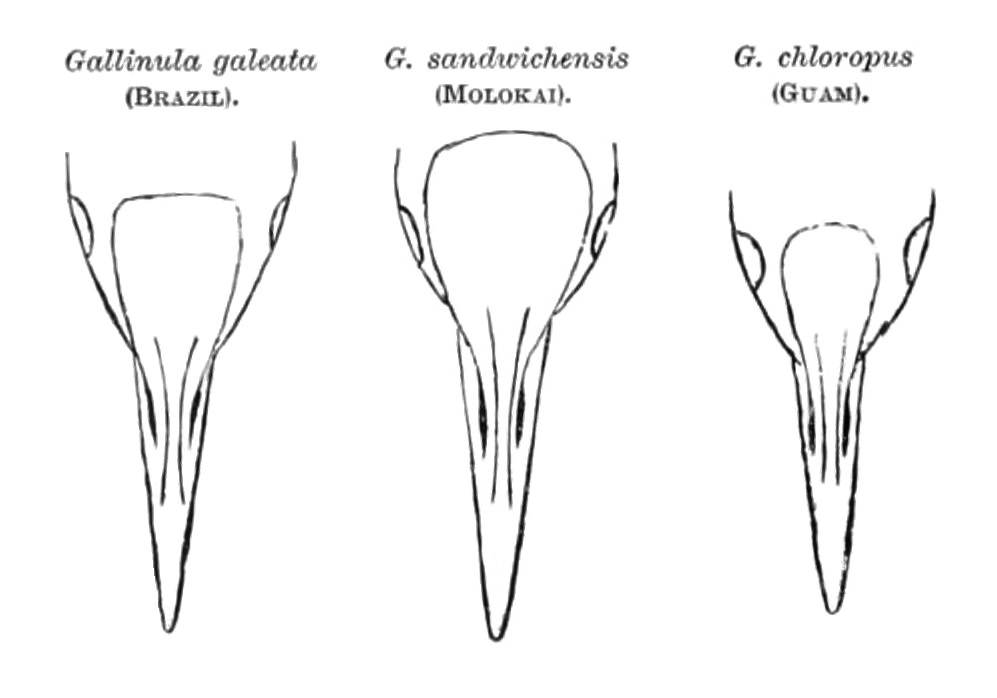 « Gallinula galeata » = Gallinula galeata (Common Gallinule) - bill « Gallinula sandvicensis » = Gallinula galeata sandvicensis (Subspecies of Common Gallinule) - bill « Gallinula chloropus » from Guam = Gallinula chloropus guami (Subspecies of Common Moorhen) - bill